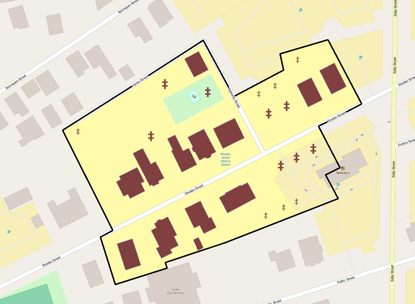 Map showing the boundaries of the Rhodes Street Historic District in Providence, Rhode Island, United States. The historic district is listed on the US National Register of Historic Places. Boundary data is derived from the historic district's National Register nomination form. Black boundary/yellow area: Rhodes Street Historic District boundaries. Maroon shading: Buildings listed as contributing resources in the historic district. Maroon double-daggers: Mark the former locations of houses (large) or accessory buildings (small) that were identified as contributing features in the historic district at the time of listing on the National Register, but which had been either demolished or relocated by August 15, 2006 (date of Google Earth satellite imagery).